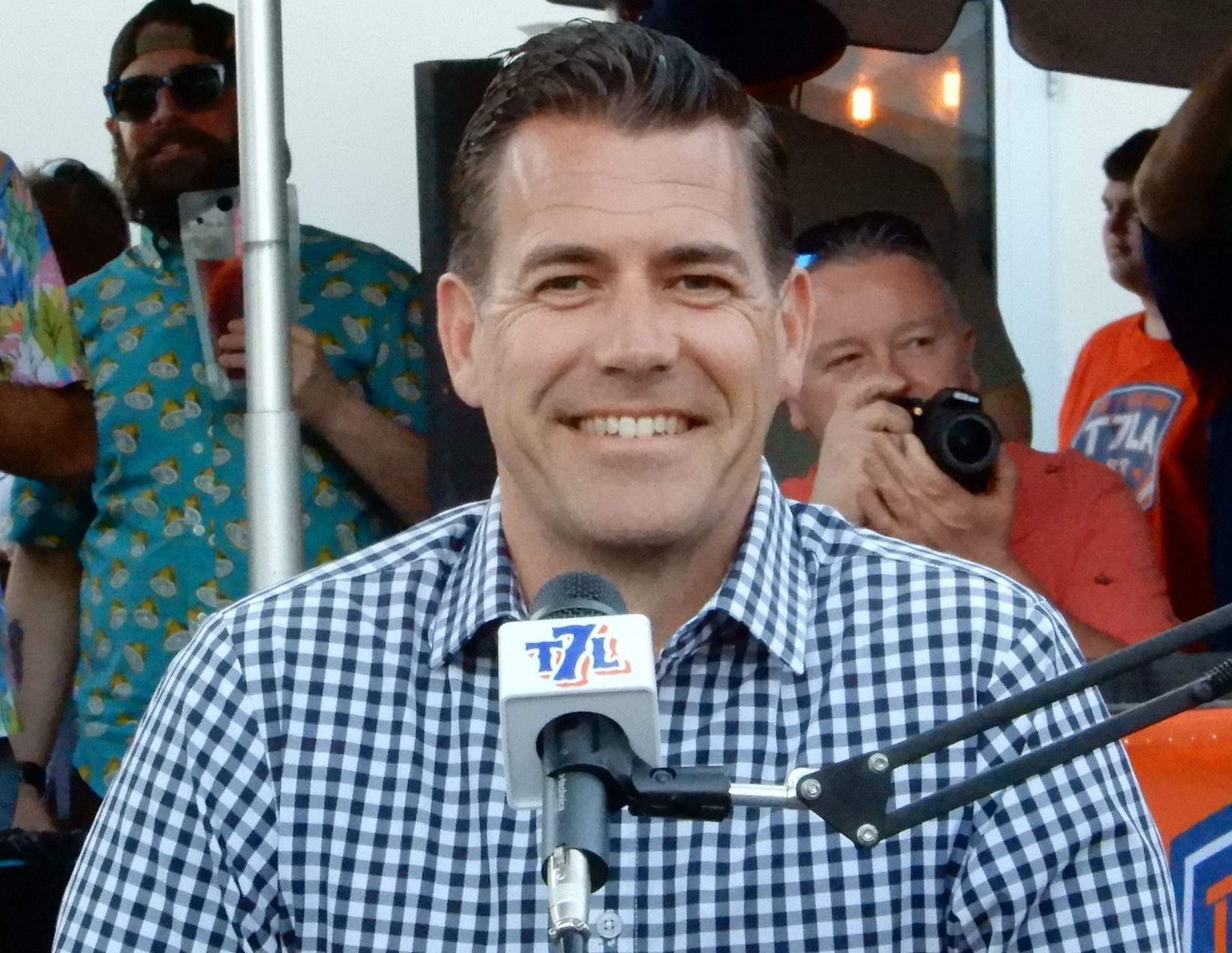 Brodie Van Wagenen gives an interview at spring training in 2019